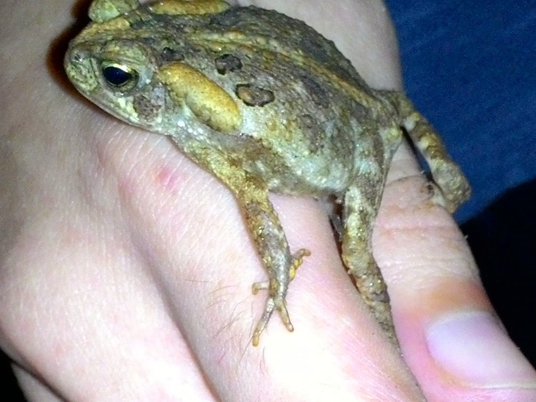 A juvenile of Rhinella schneideri in a hand